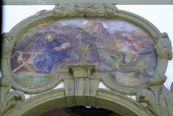 Sankt Mang Füssen Photo by Myke Rosenthal-English